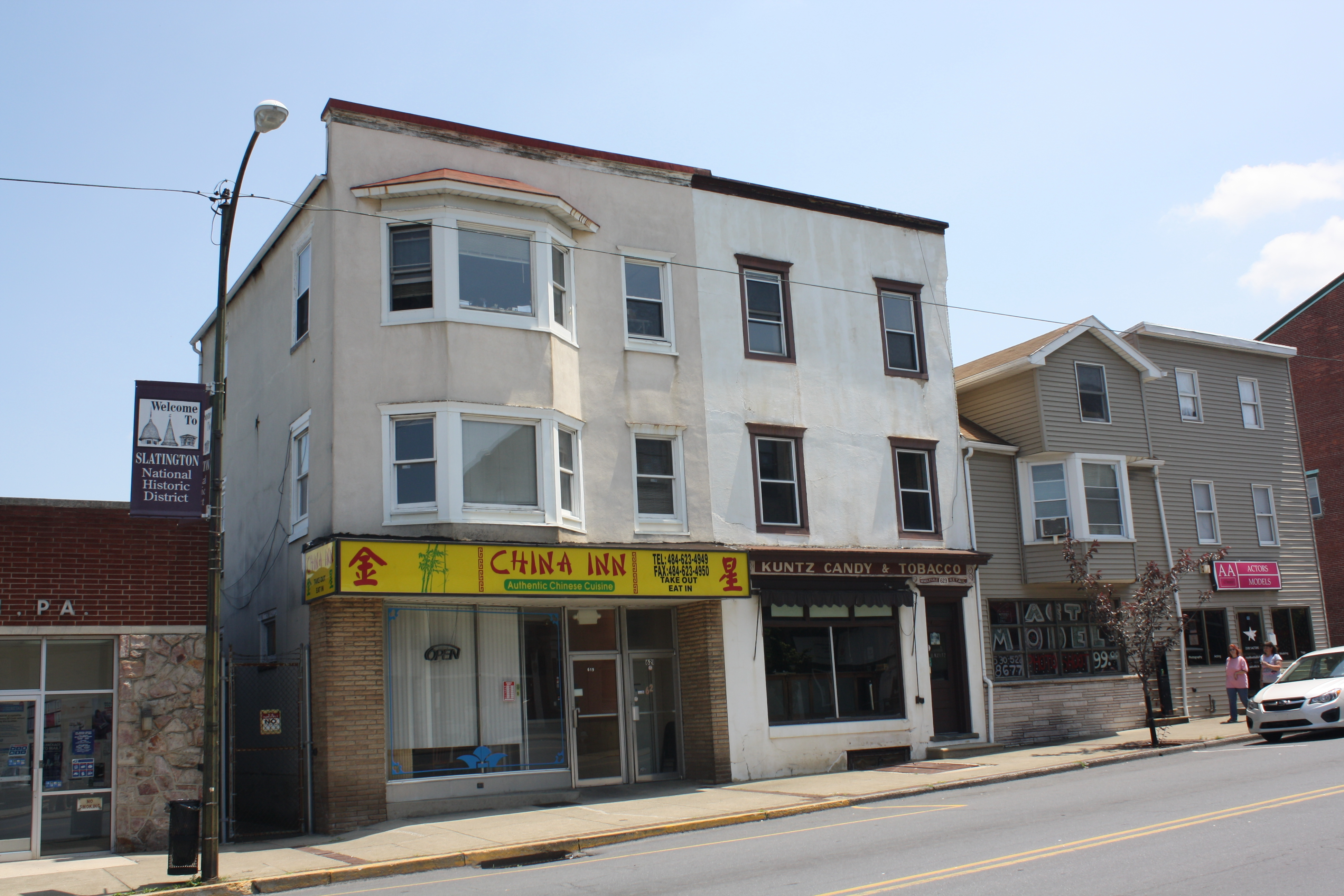 619/621/623/625 Main St., Slatington, Pennsylvania (Slatington Historic District).